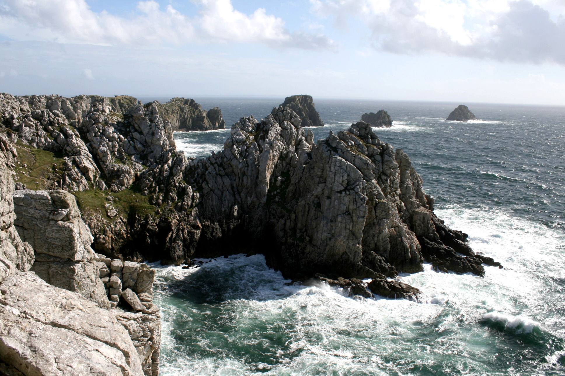 The Tas de Pois (pile of peas) from the Pointe de Penhir at Camaret-sur-Mer